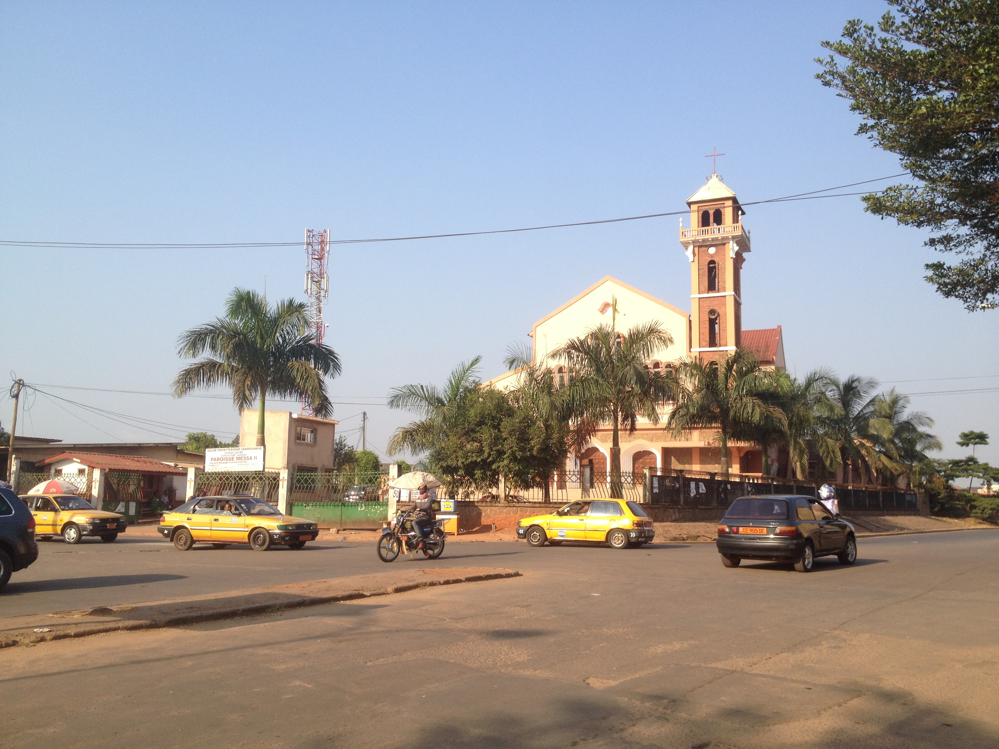 Presbyterian Church in Messa, Yaoundé